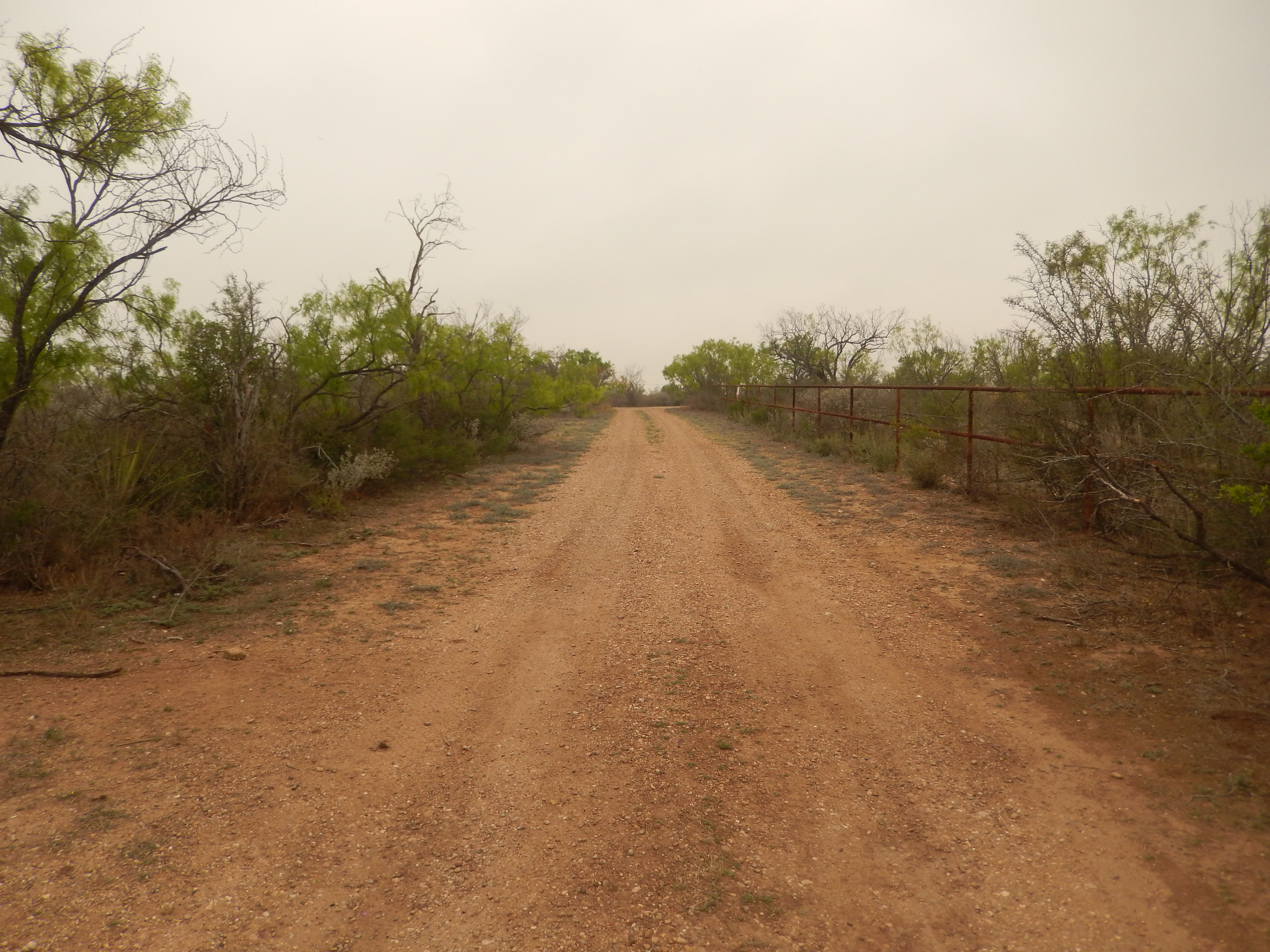 I took photo with Nikon camera of ranch road in Maverick County, TX.